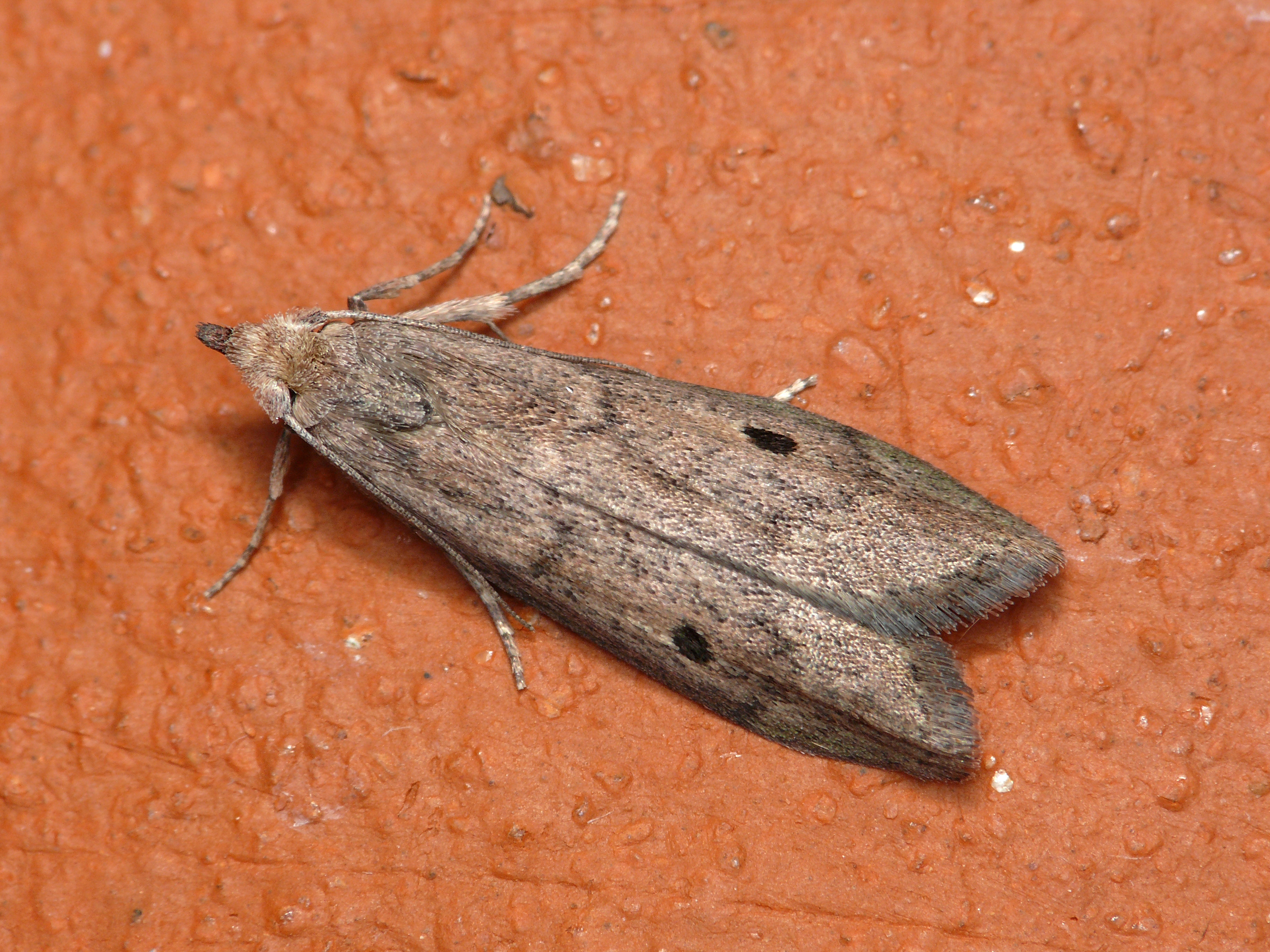 One of 5 to emerge from a sack of bird food.